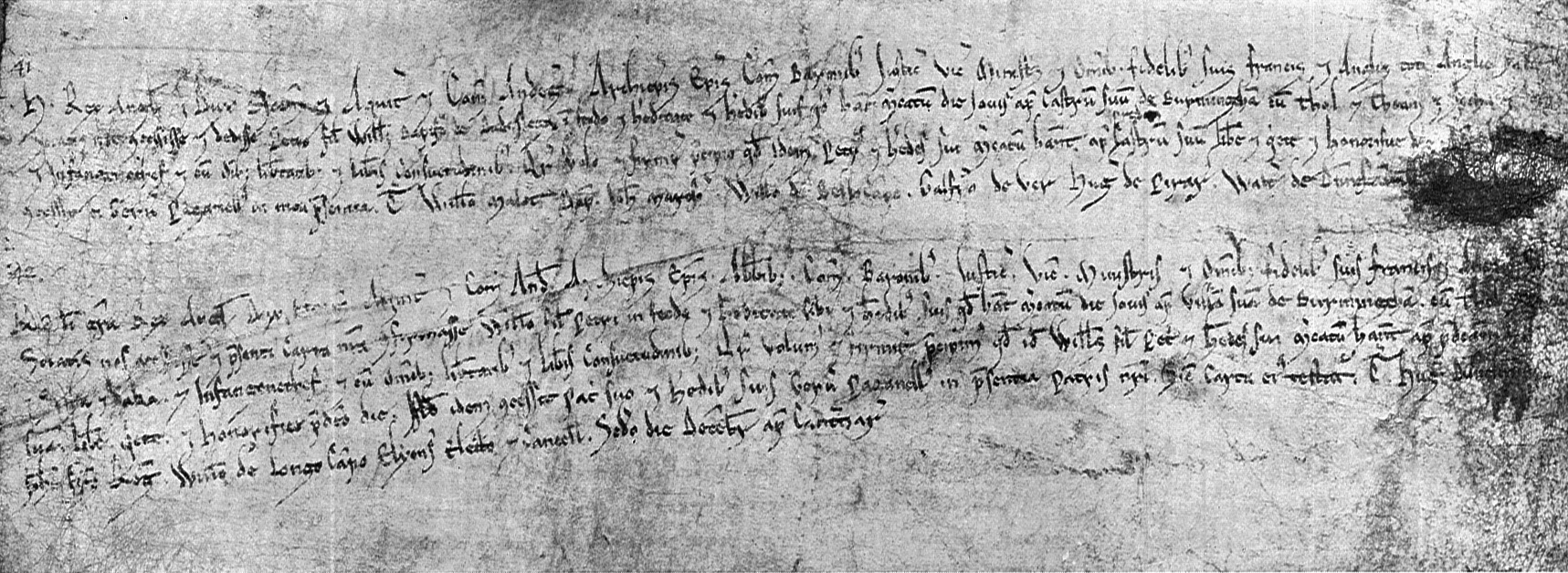 Enrolment of the charters of Henry II (1166) and Richard I (1189) granting and confirming the right to hold a market in Birmingham. From the Carte Antique Rolls, C52, Roll 19, Nos. 41 & 42 in the National Archives, Kew, London.